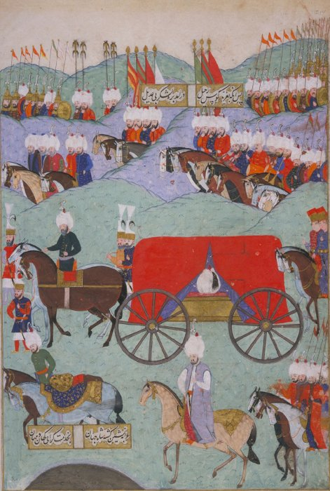 Illustration of Ottoman soldiers